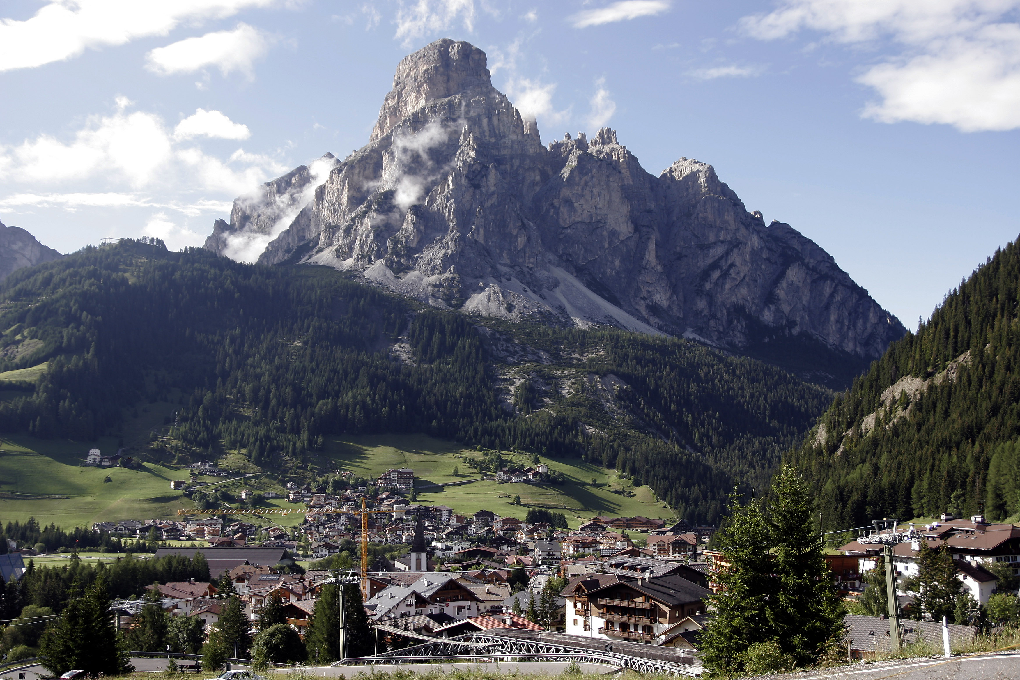 Corvara, with the Sassongher mountain (2665 m) in the background. Picture taken from the road to passo Campolongo.